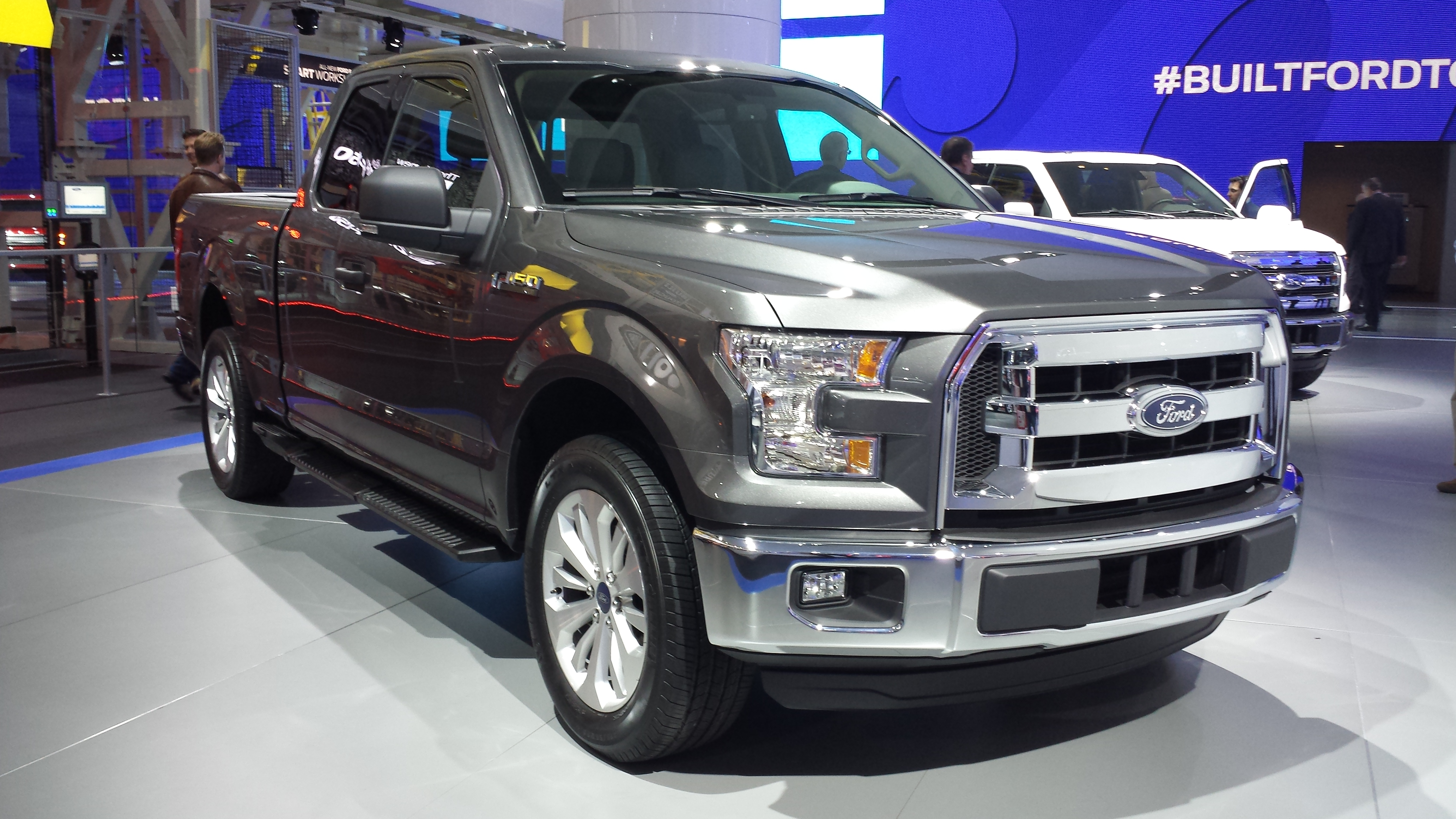 View of the unique headlights and front bumper of the new 2015 Ford F-150 at the Detroit Auto Show